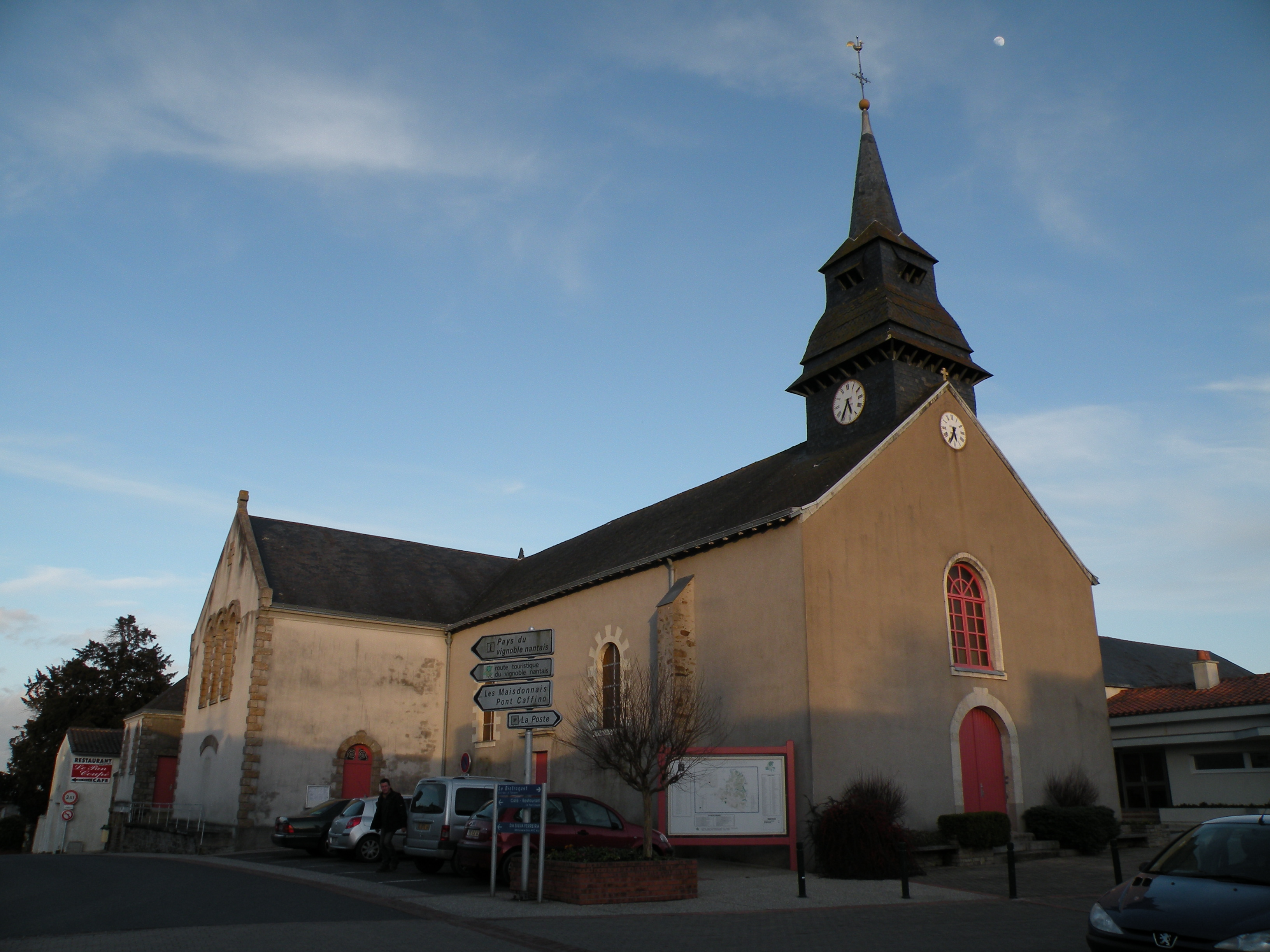 Church of Château-Thébaud